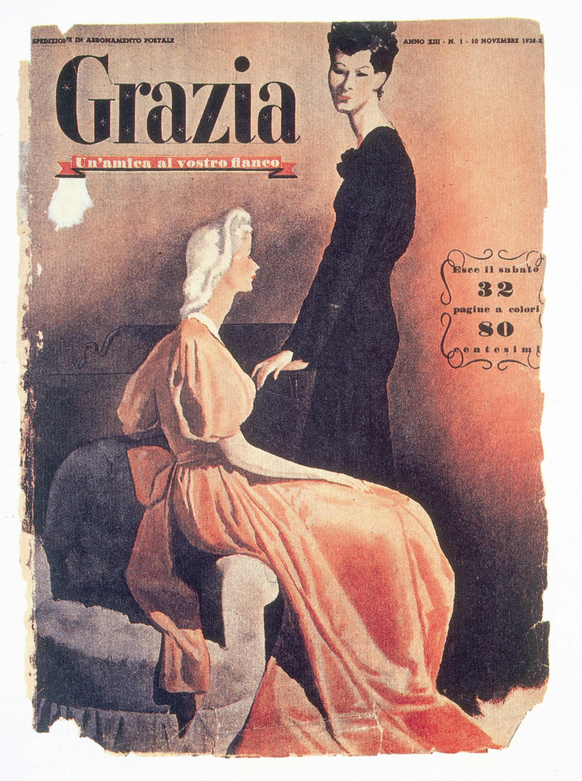 Cover of the first number of Grazia magazine, italian edition (1938)